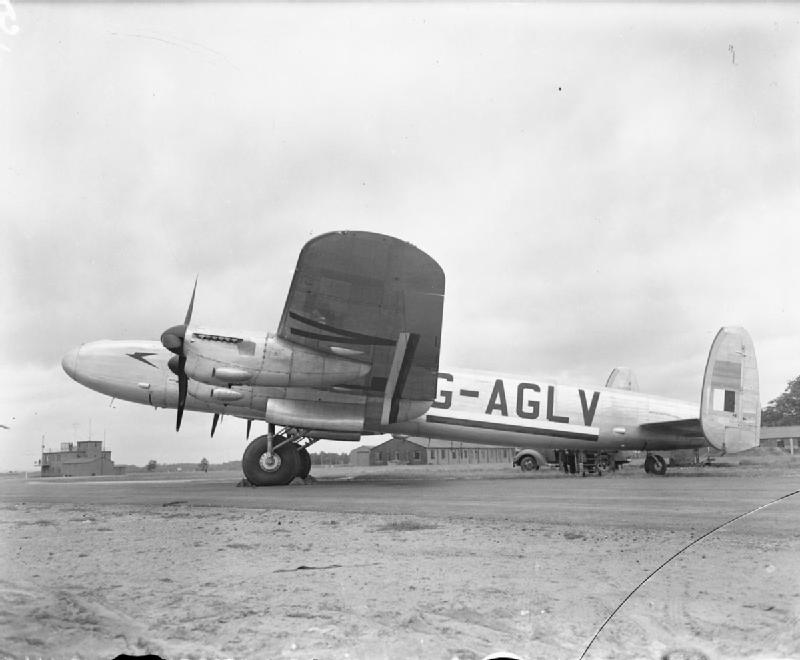 Aircraft of the Royal Air Force, 1939-1945- Avro 691 Lancastrian. Lancastrian Mark I, G-AGLV, of the British Overseas Airways Corporation, on the ground at Hurn, Hampshire, before taking off on the inaugural BOAC/QANTAS flight to Sydney.